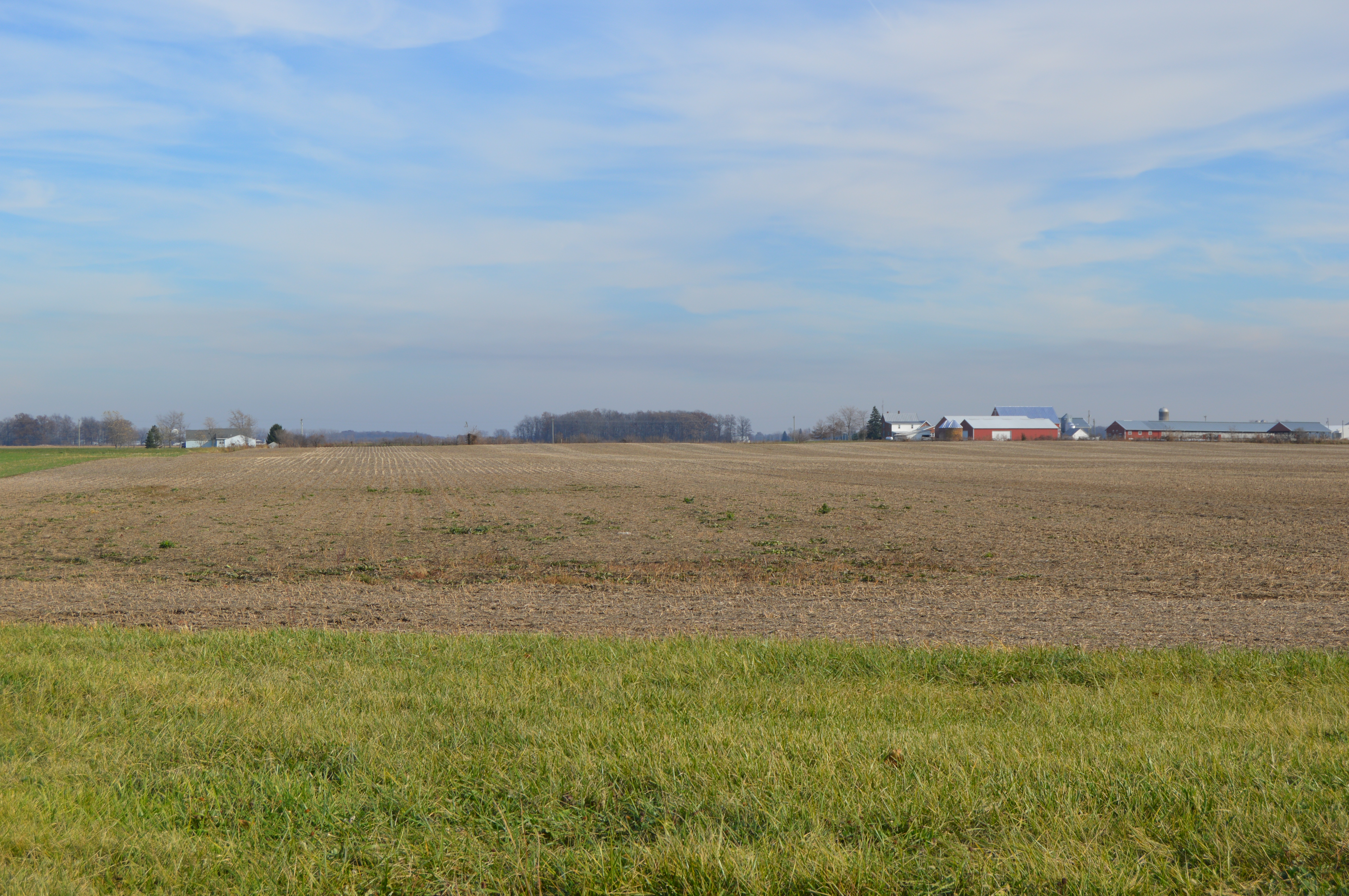 Looking eastward from Holthaus Road just south of the State Route 705 intersection, southwest of Fort Loramie in far western McLean Township, Shelby County, Ohio, United States.